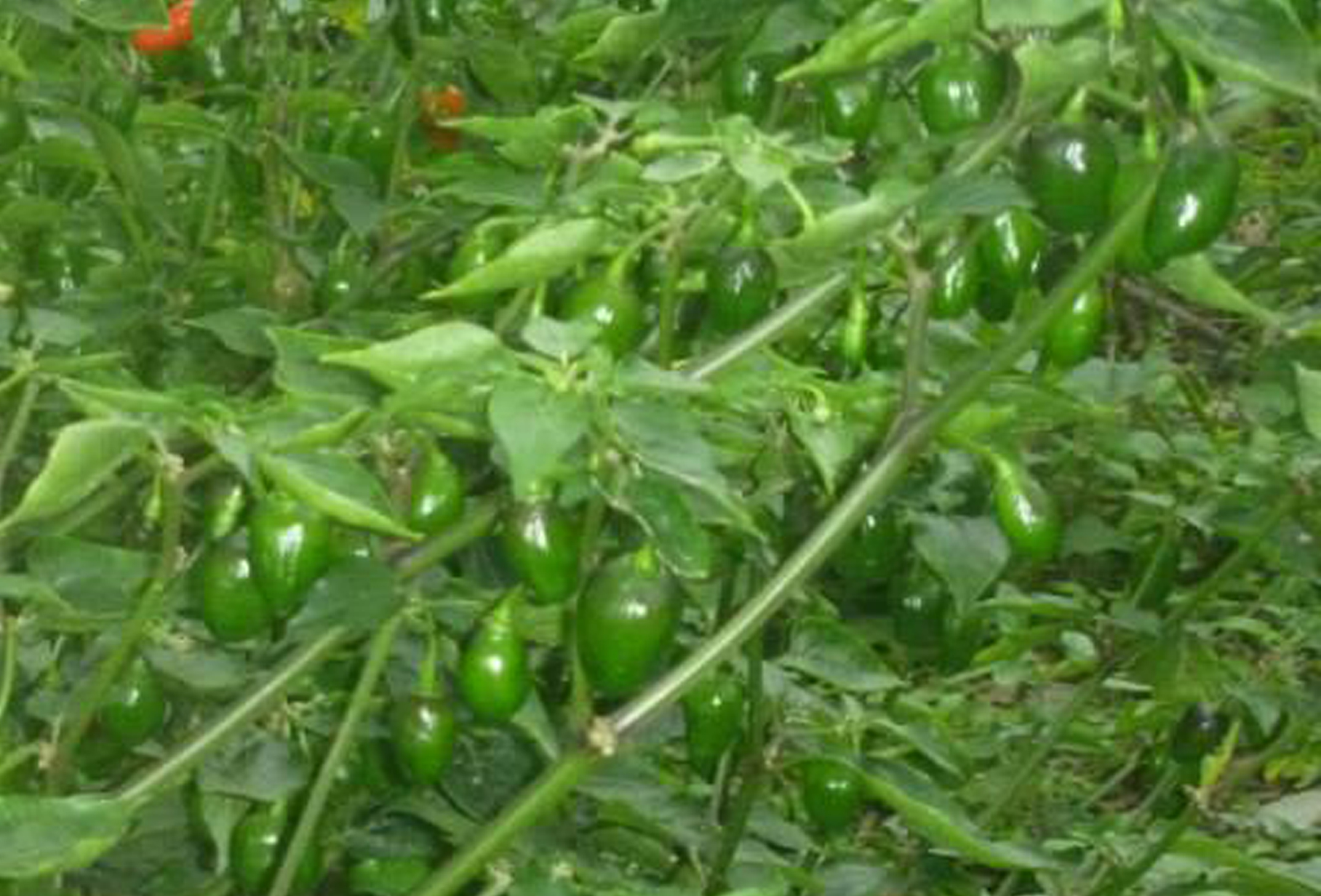 Akabare Khursani in Nepali Language. Not sure either it is Capsicum chinense or not.